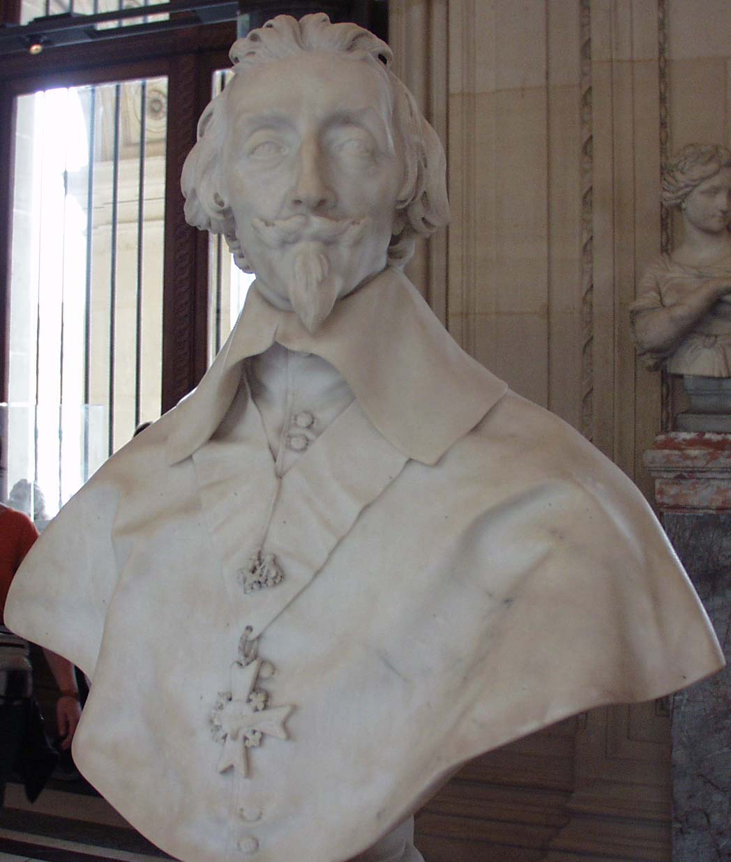 Portrait of the cardinal Richelieu (1585-1642)